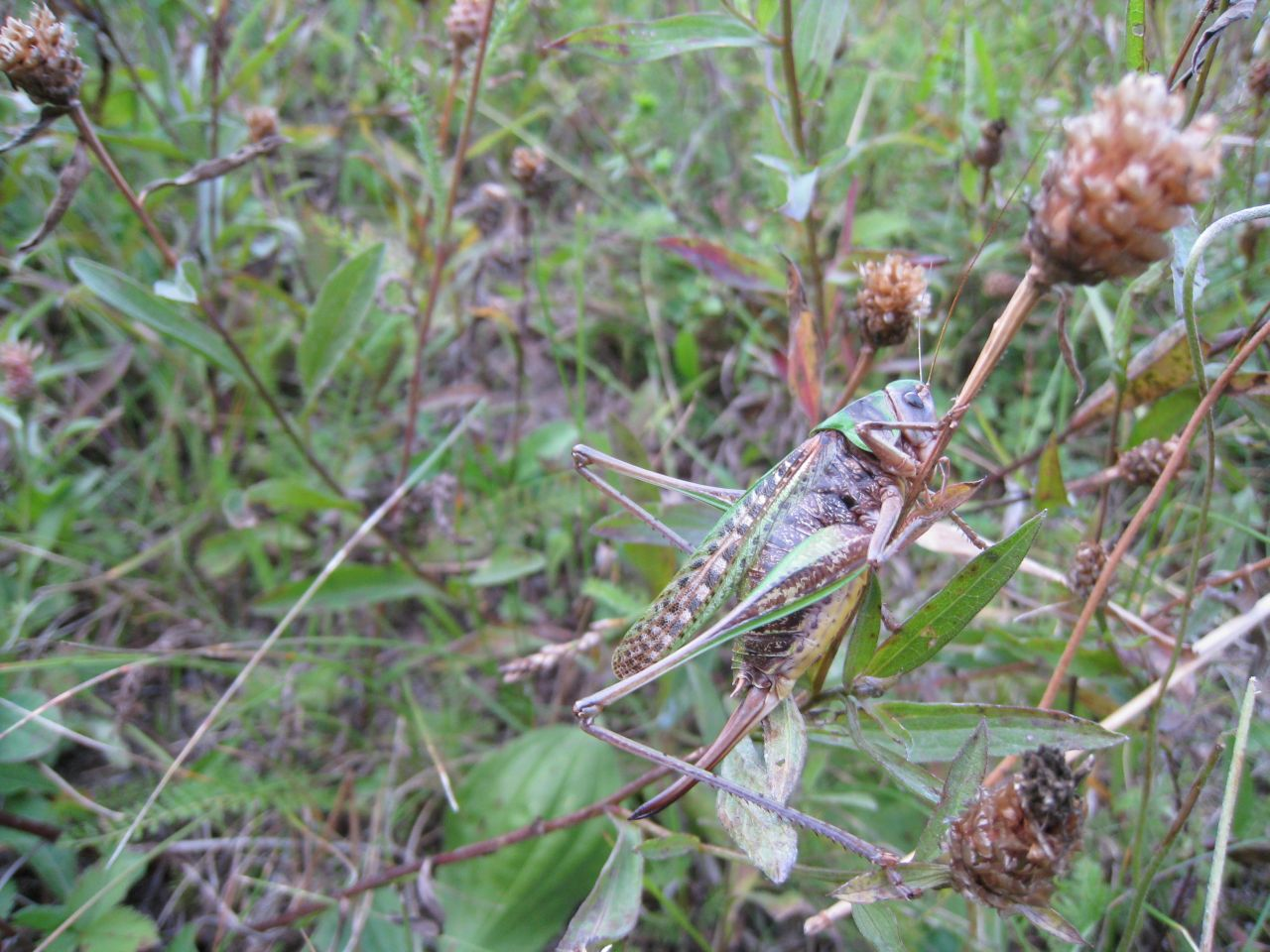 A grasshopper in the grass. Russia, Leningradskaya oblast